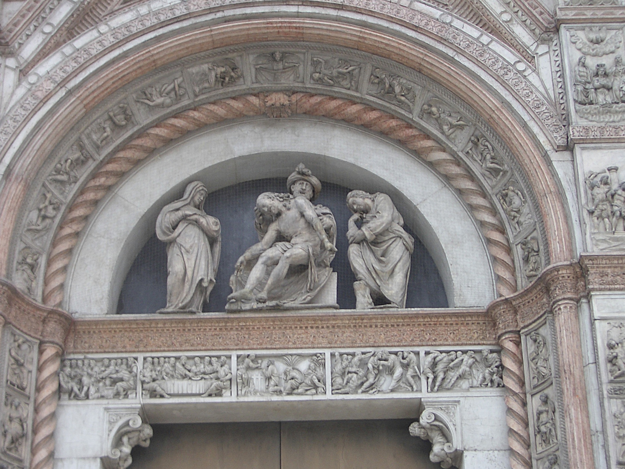 Bologna, Facade of San Petronio church, lunette of the right portal. The sculptor that made the two central statues, representing Joseph of Arimathea (or Nicodemus) sustaining the dead Christ is Amico Apertini (ca. 1526)